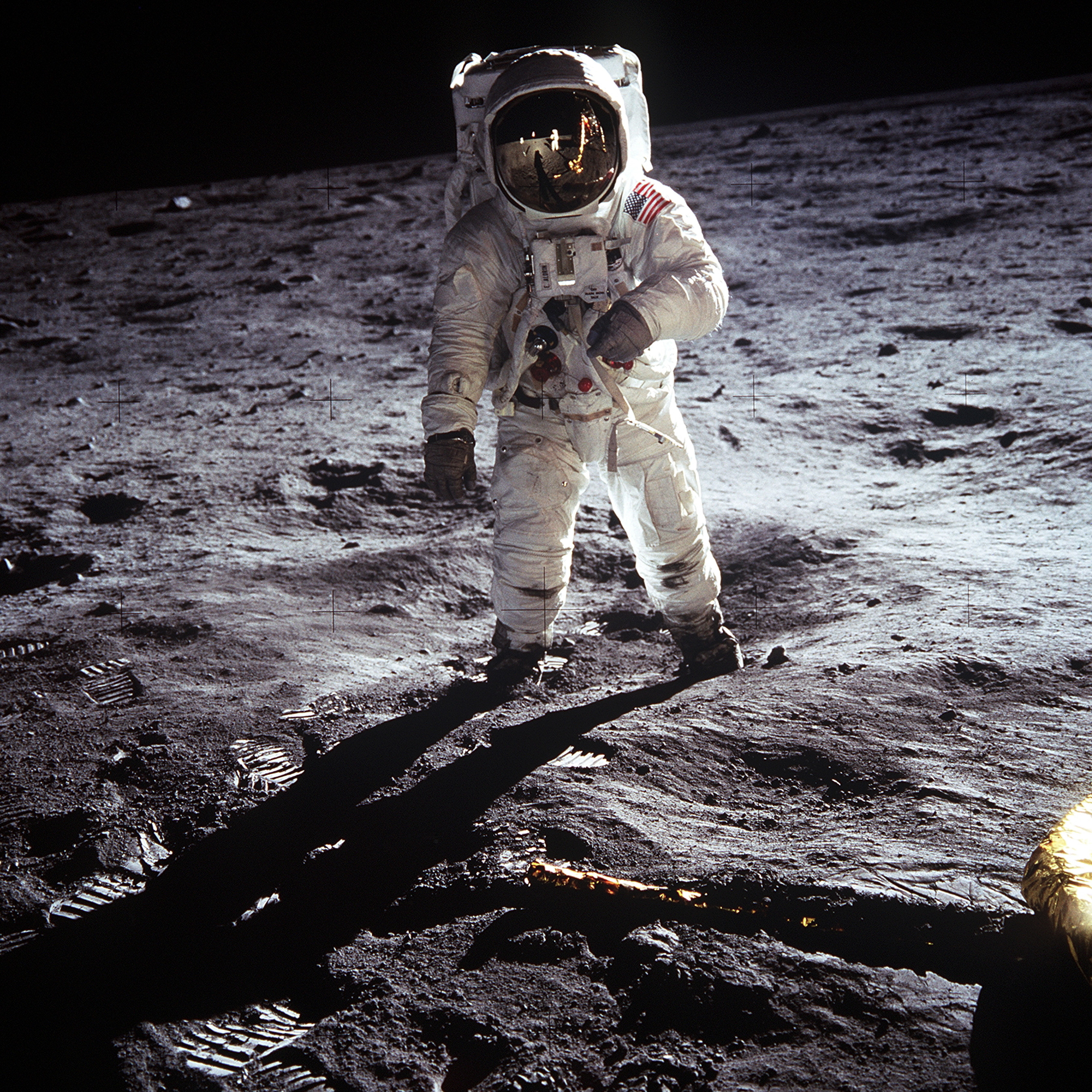 Short description: Astronaut Buzz Aldrin on the moon Full description: Astronaut Buzz Aldrin, lunar module pilot, walks on the surface of the Moon near the leg of the Lunar Module (LM) "Eagle" during the Apollo 11 extravehicular activity (EVA). Astronaut Neil A. Armstrong, commander, took this photograph with a 70mm lunar surface camera. While astronauts Armstrong and Aldrin descended in the Lunar Module (LM) "Eagle" to explore the Sea of Tranquility region of the Moon, astronaut Michael Collins, command module pilot, remained with the Command and Service Modules (CSM) "Columbia" in lunar orbit. Variations: The upper black band is an addition to the original photo, carried out for "reasons of balance". Seeing original photo and explanation of the trucaje in the Link. In the version expanded of the photography is possible to see a horizontal white line in the left upper part (right of the person that contemplates the photography) of the helmet. Is the base of the antenna, that was cut in the original setting of the photography.